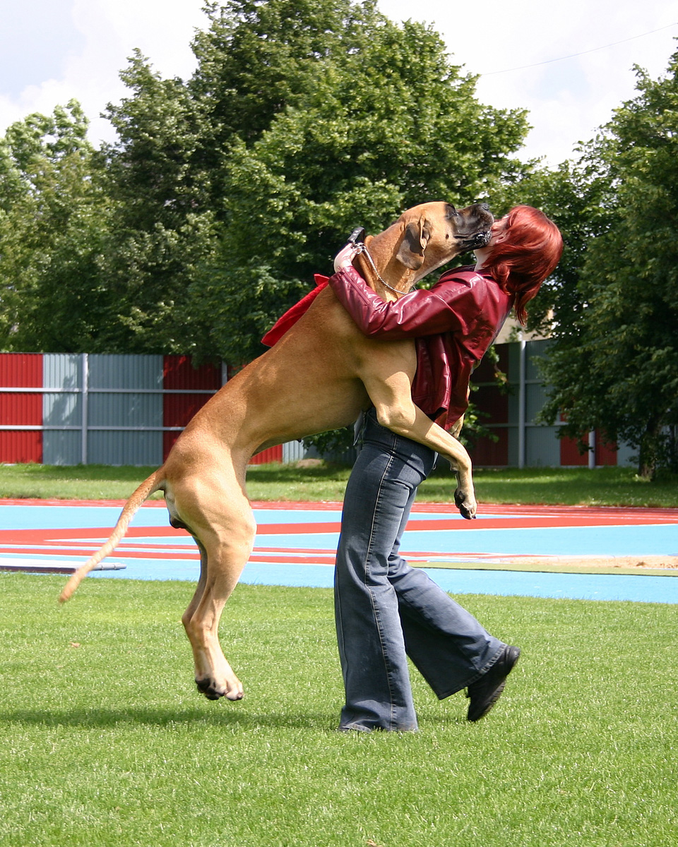 Fawn great dane with owner